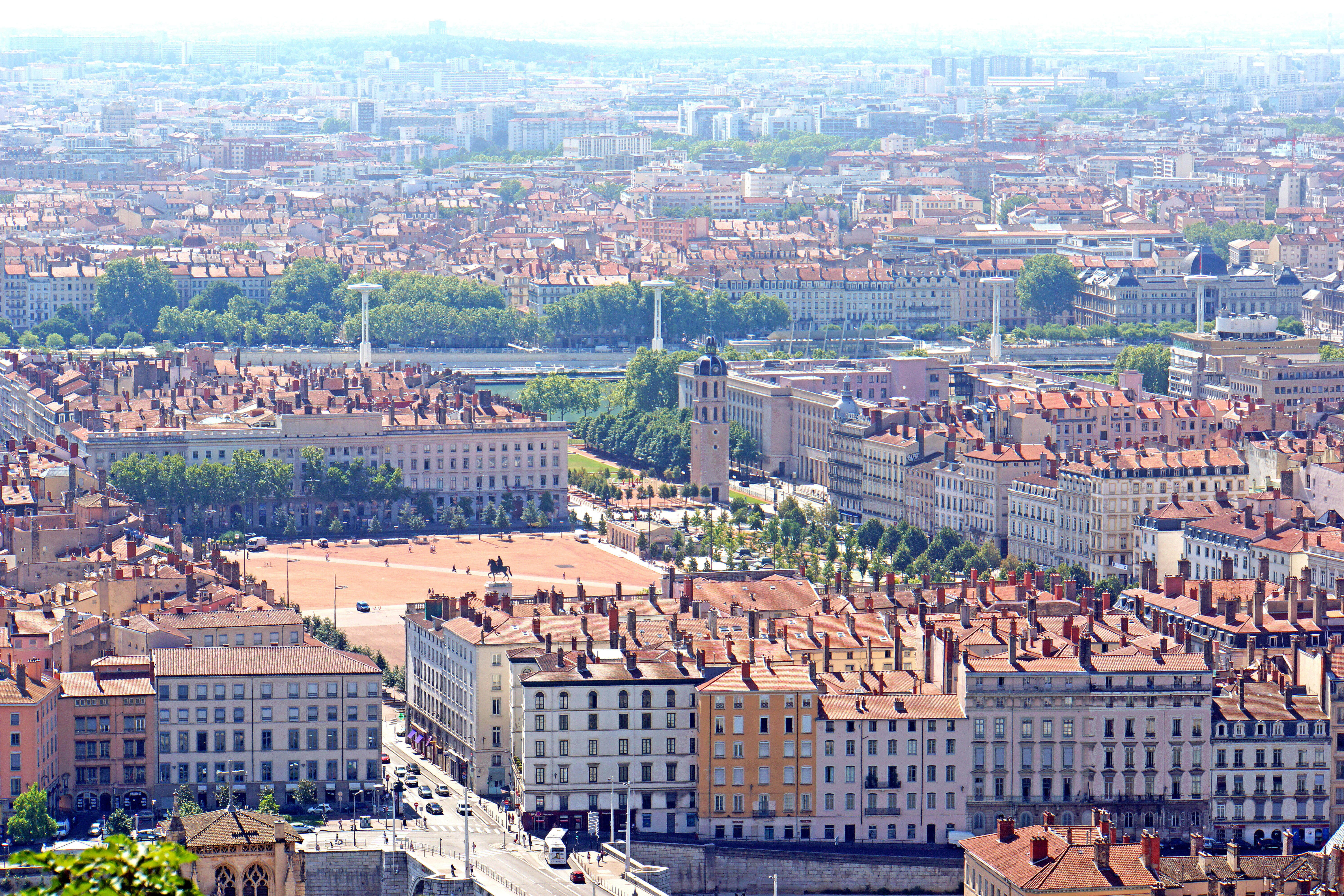 PLEASE, NO invitations or self promotions, THEY WILL BE DELETED. My photos are FREE to use, just give me credit and it would be nice if you let me know, thanks. View of Lyon from the basilica of Notre-Dame de Fourvière. Place Bellecour is a large square. it is one of the largest open squares in Europe, and the third biggest square in France. It is also the largest pedestrian square in Europe. In the middle is an equestrian statue of king Louis XIV.